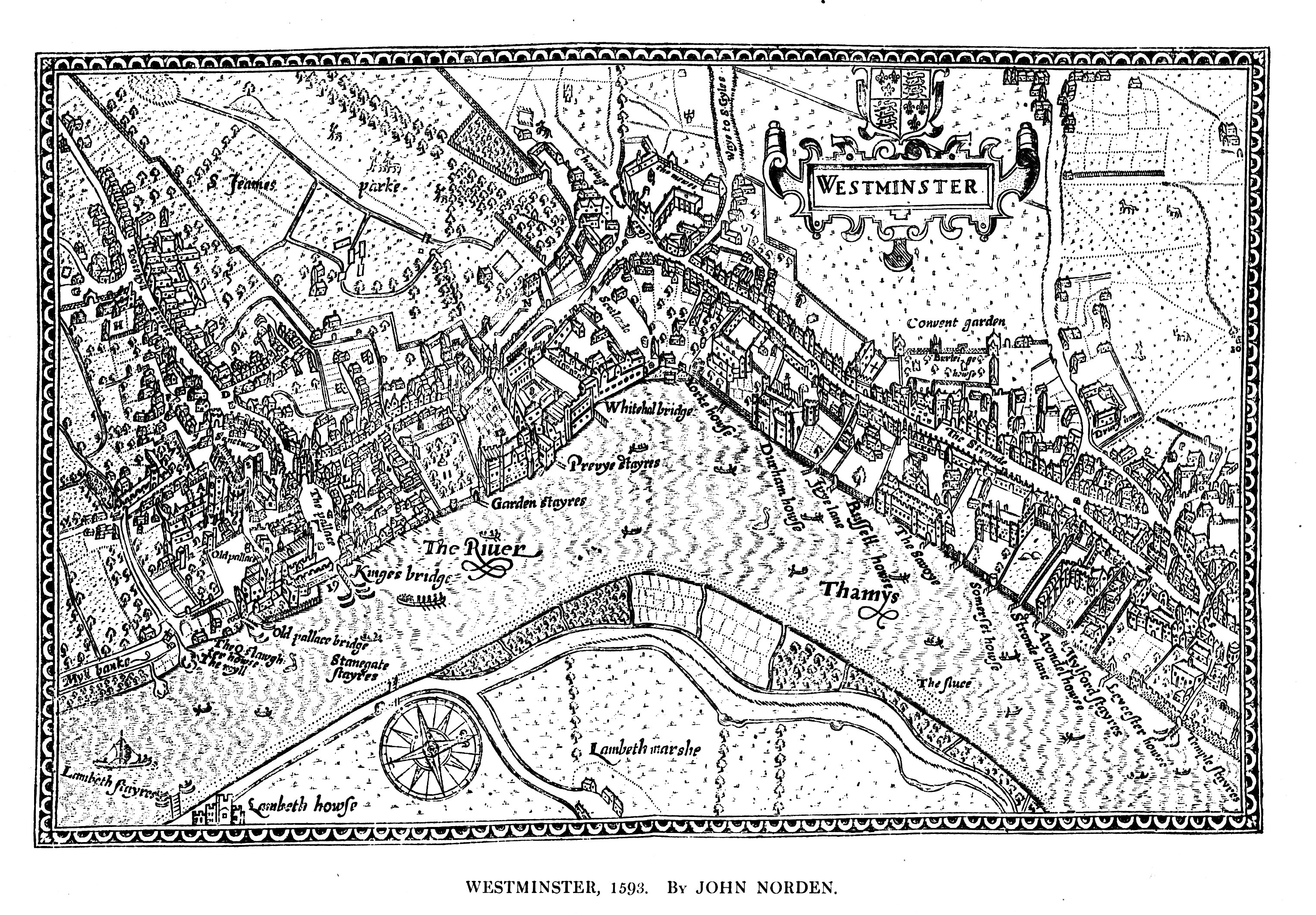 John Norden's Map of Westminster, 1593, engraved by Pieter Van den Keere. Original size 9.5 x 6.75 inches, published in Norden's "Middlesex", dated 1593. Norden was born c. 1548, and was made Surveyor of His Majesty's Woods in 1609.